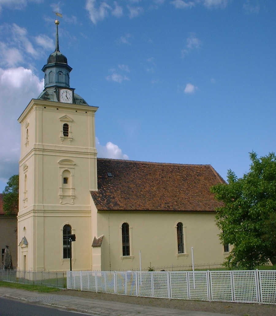 Church in Stülpe in Brandenburg, Germany